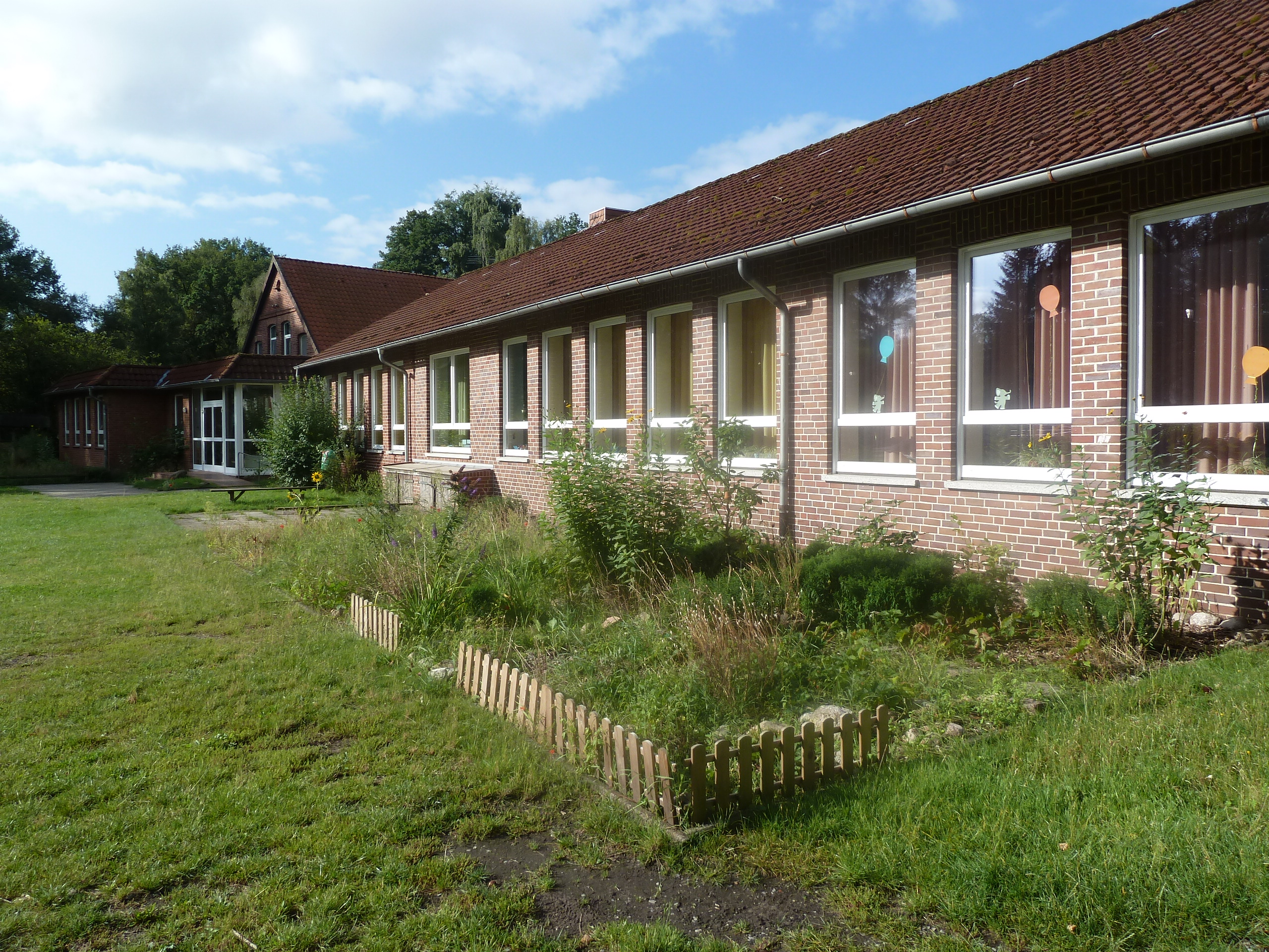 Germany, Schneverdingen, Lünzen, building "Grundschule Lünzen"